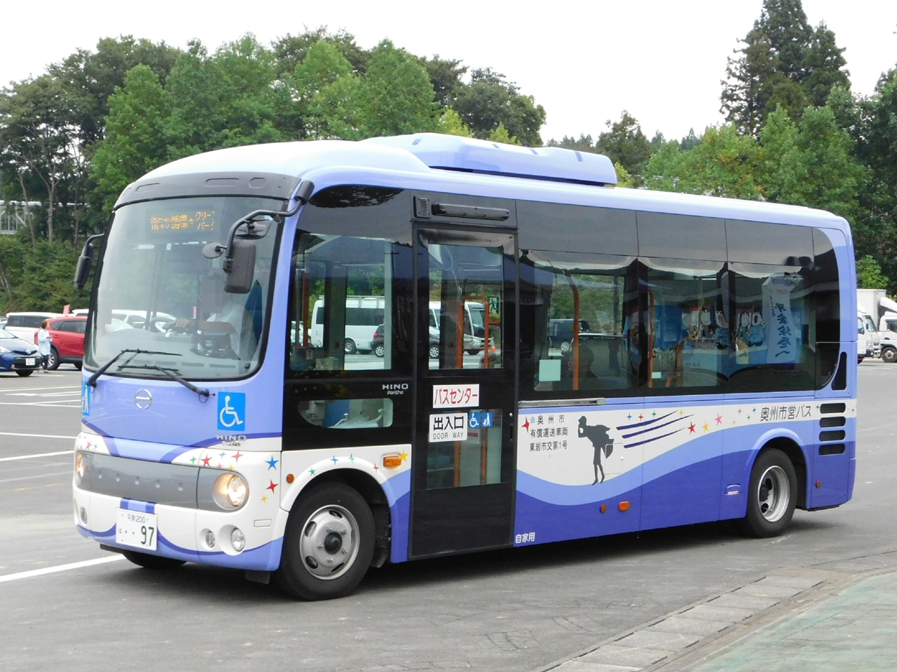 Oshu city (Iwate,Japan) bus Hino Poncho